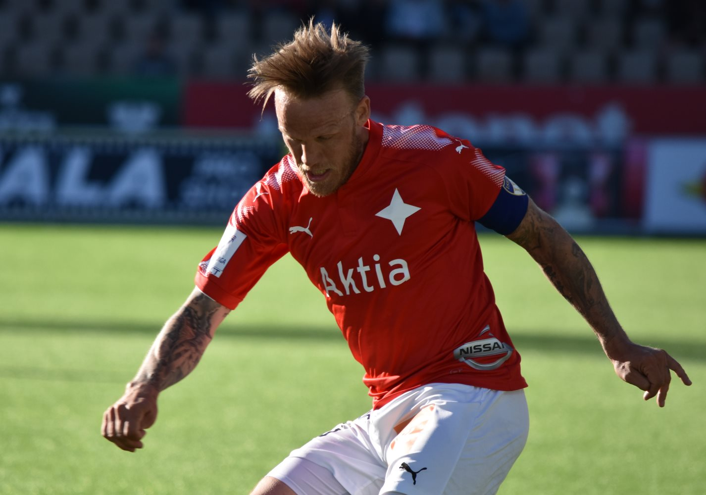 Football player Mika Väyrynen (HIFK)